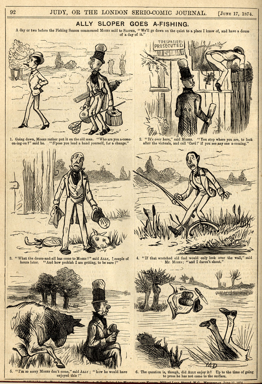 A page featuring Ally Sloper drawn (and probably written) by Mary Duval and published in Judy in the 1870's. For more details, see the title.